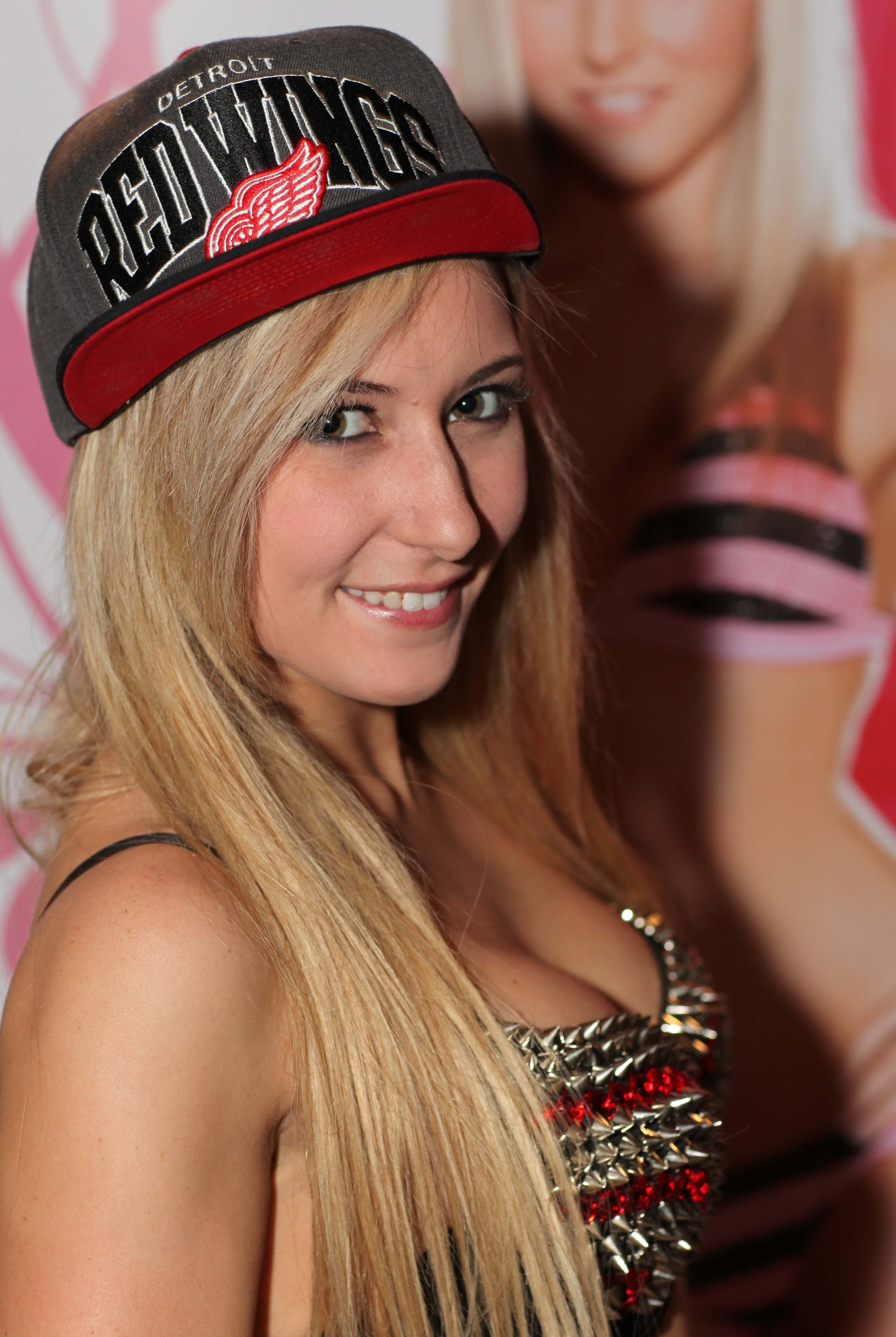 Lilly Banks (Lilly_Banks) on Twitter Photos from the 2013 AVN Expo & AVN Awards held at the at the Hard Rock Hotel & Casino in Las Vegas. Please provide photographer credit when using, tweeting, etc... Photo by Michael Dorausch This photo is licensed under a Creative Commons license. If you use this photo within the terms of the license or make special arrangements to use the photo, please list the photo credit as "Michael Dorausch" and link the credit to .